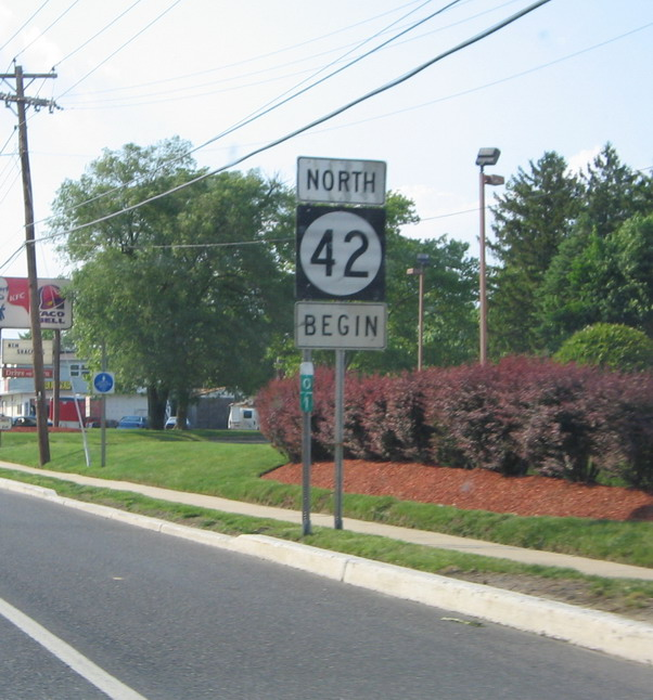 "Begin" Route 42 signage just north of U.S. Route 322